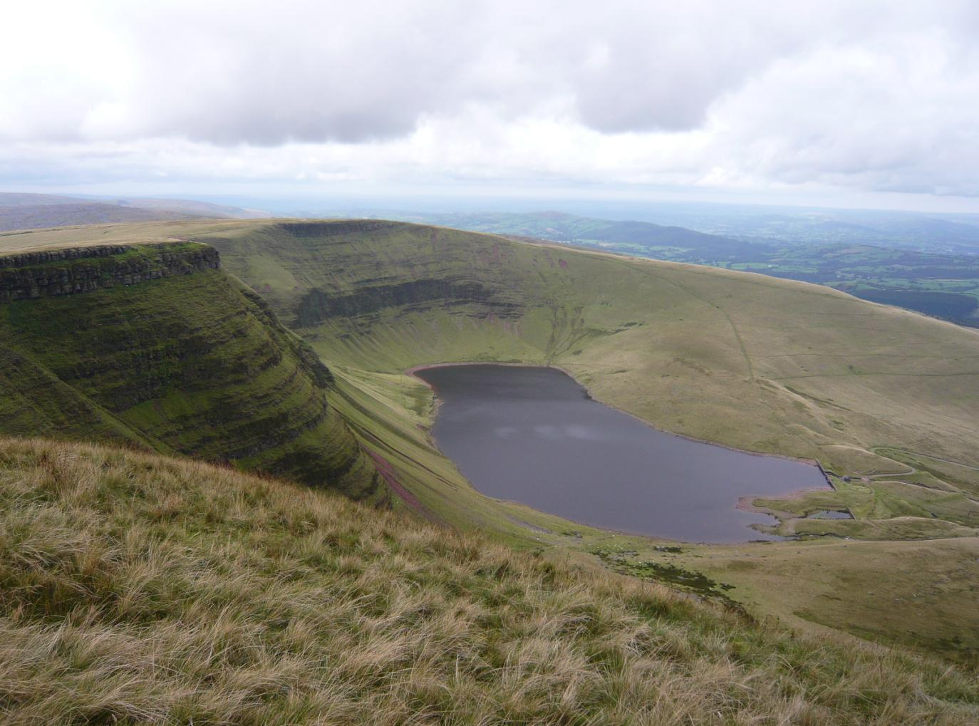 waun llefrith